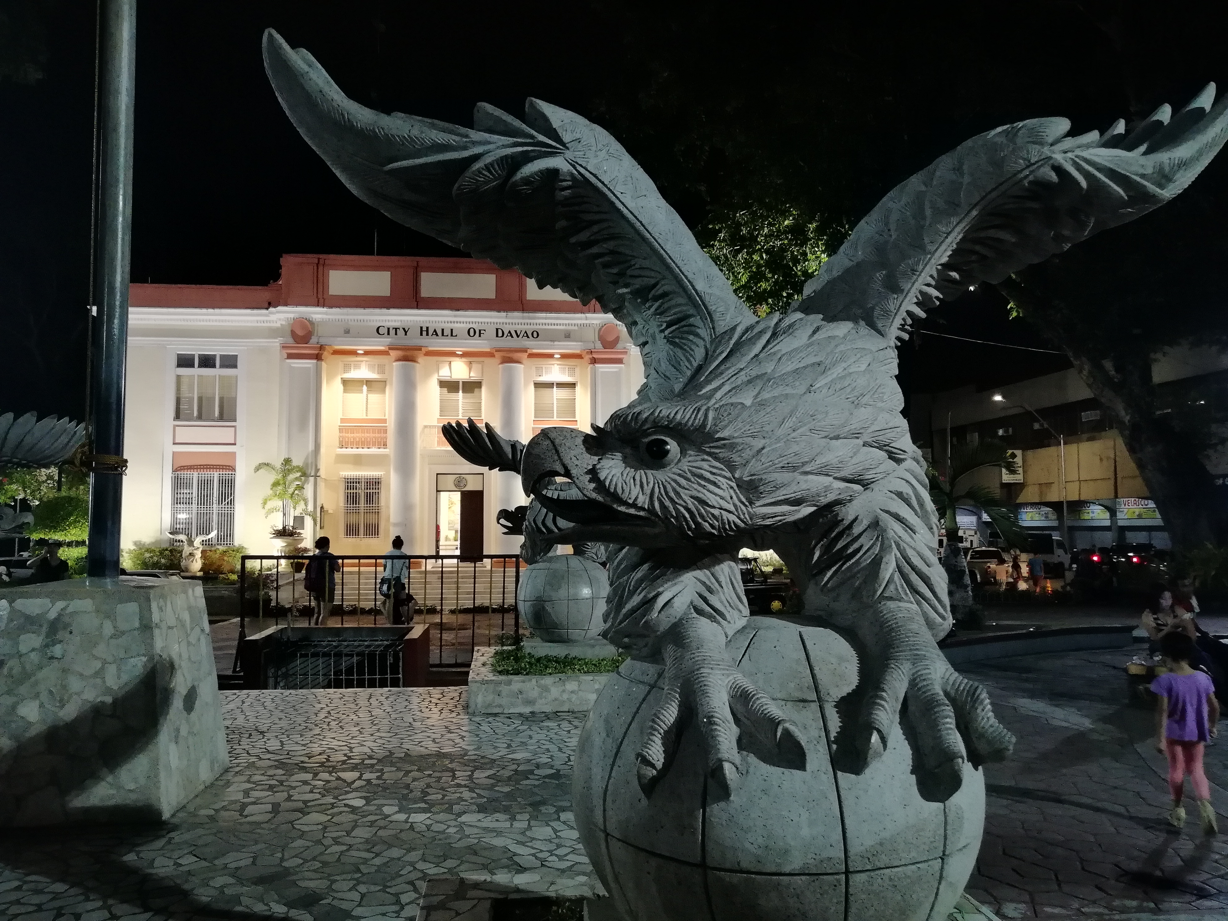 Quezon park and city hall of Davao City